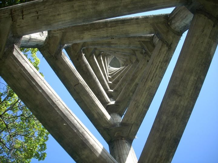 Desde adentro es distinto